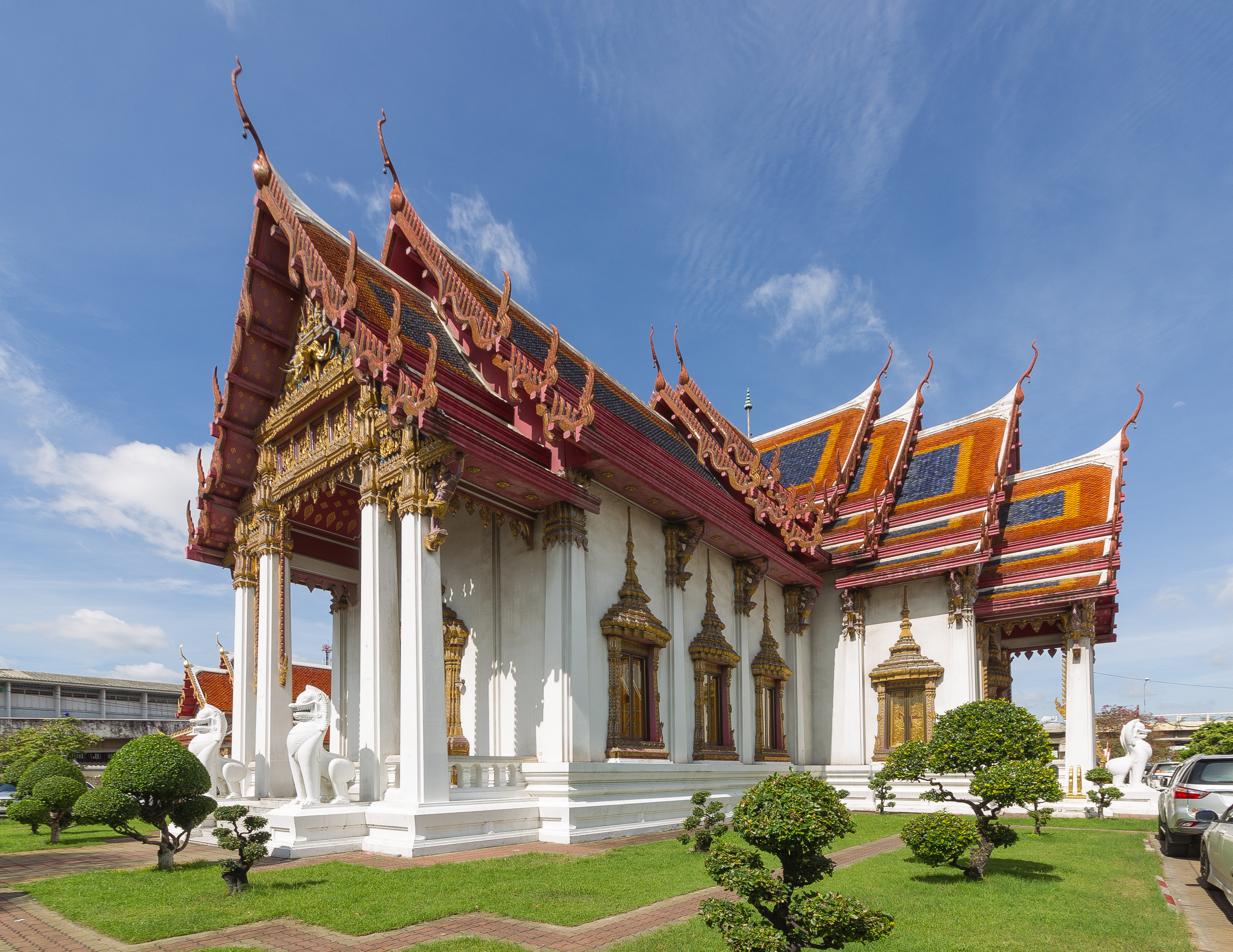 Wat Amarintharam, Bangkok, Thailand.